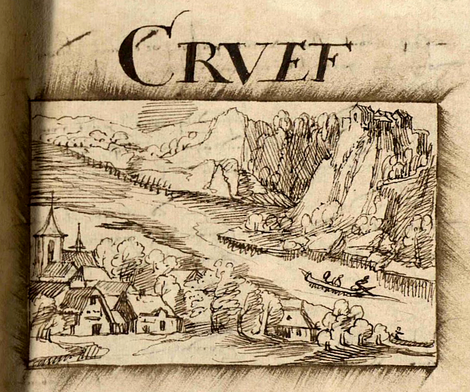 "Cruef" (today: Kröv, Landkreis Bernkastel-Wittlich) by Jean Bertels, ~1597